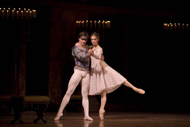 Jurgita Dronina and Olaf Kollmannsperger in 2007, from a Romeo and Juliet production at the Royal Swedish Opera.